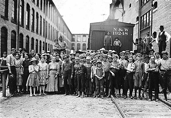 Original description: A part of the spinning force working in the Washington Cotton Mills. Group posed by overseer. All work. The overseer said, "These boys are a bad lot." All were alive to the need for being 14 years old, when questioned. Fries, Va., 05/20/1911. Photographed by Lewis Hine.